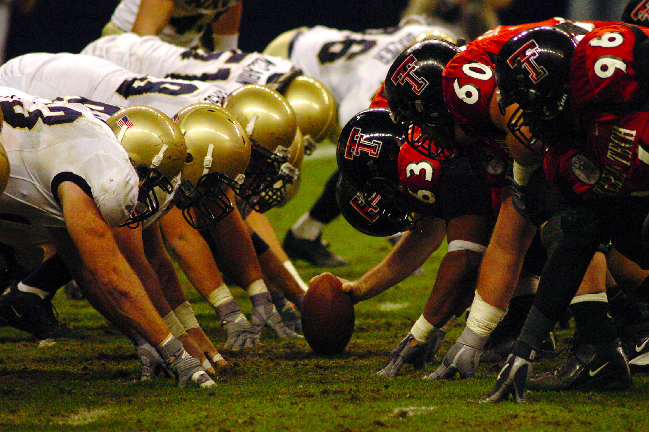 Houston, Texas (Dec. 30, 2003) -- The Navy defensive line and Texas Tech offensive line square off prior to a snap in the Houston Bowl at Reliant Stadium in Houston, Texas. The U.S. Naval Academy Midshipmen lost to the Texas Tech Red Raiders, 38-14, leaving Navy with an 8-5 record on the year. Navy boasted the top rushing offense in Division 1-A, while Tech had the nation’s leading passing offense. U.S. Navy photo by Photographer’s Mate 3rd Class Mark J. Rebilas. (RELEASED)